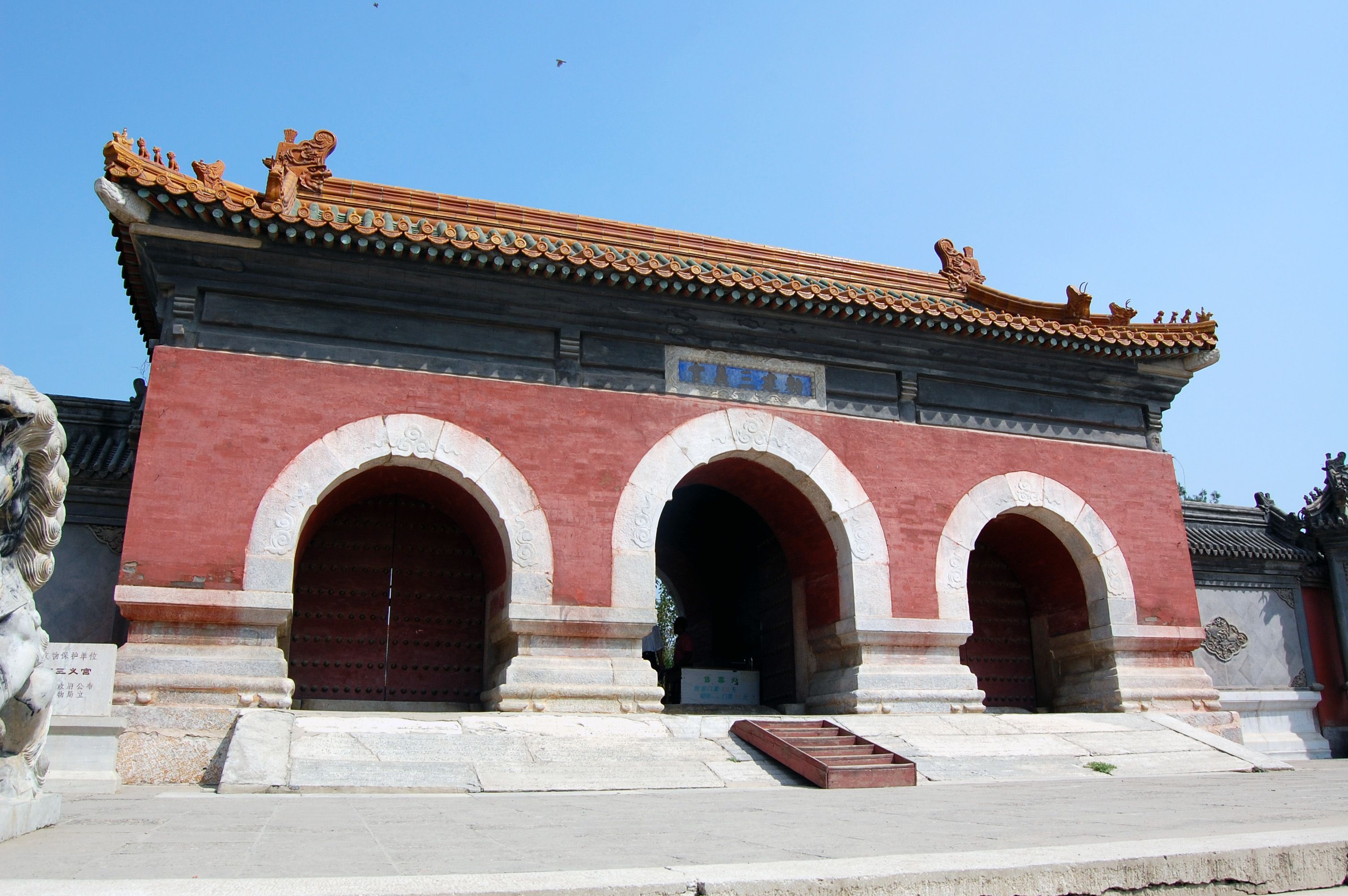 Sanyi (For Liu Bei, Guan Yu and Zhang Fei) Temple in Zhuozhou, Baoding, China